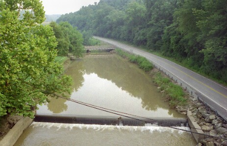 Middle Island Creek at West Union, West Virginia, as viewed from the North Bend Rail Trail. West Virginia Route 18 is at right.